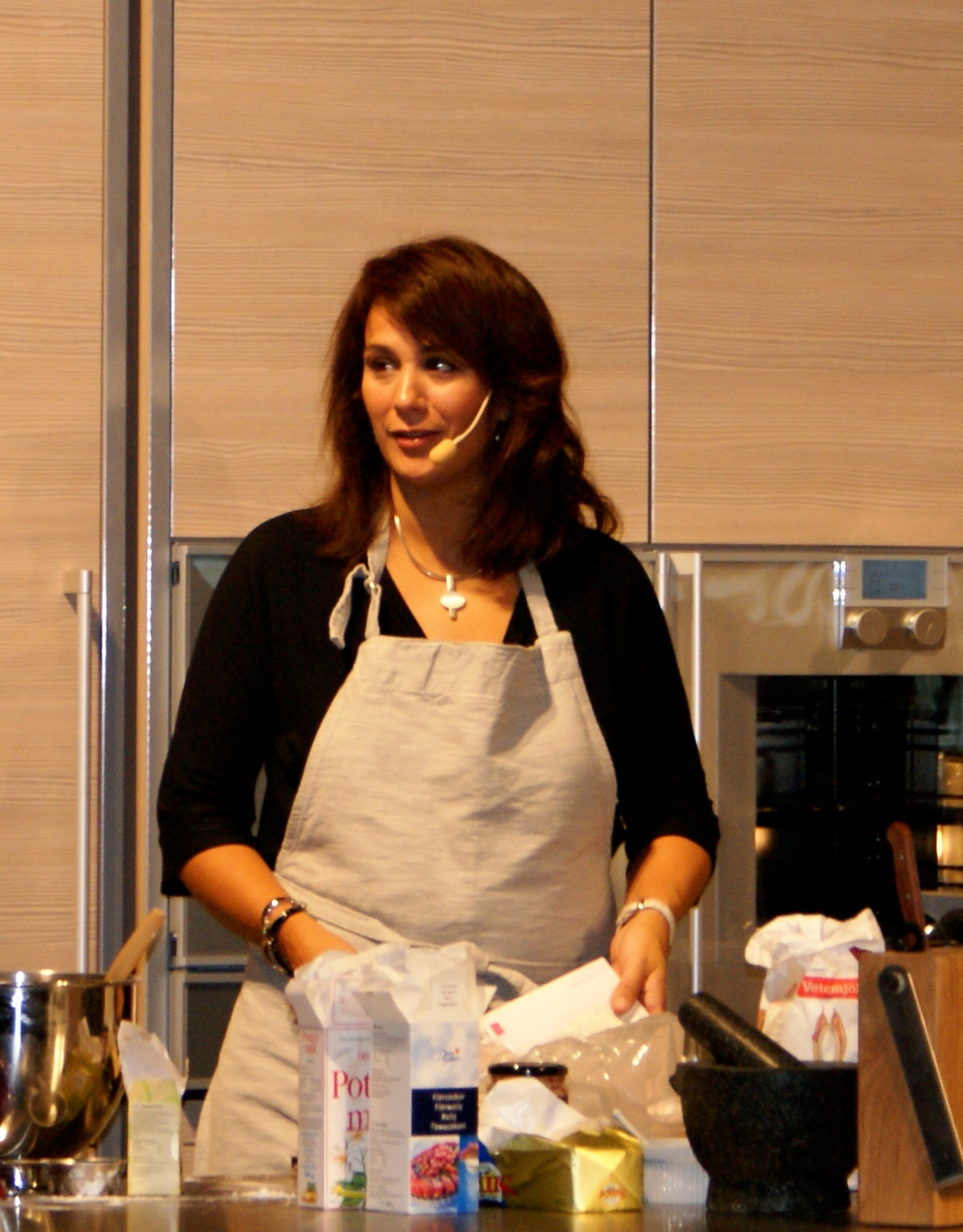 Alexandra Zazzi at the bookfair in Gothenburg 2009.